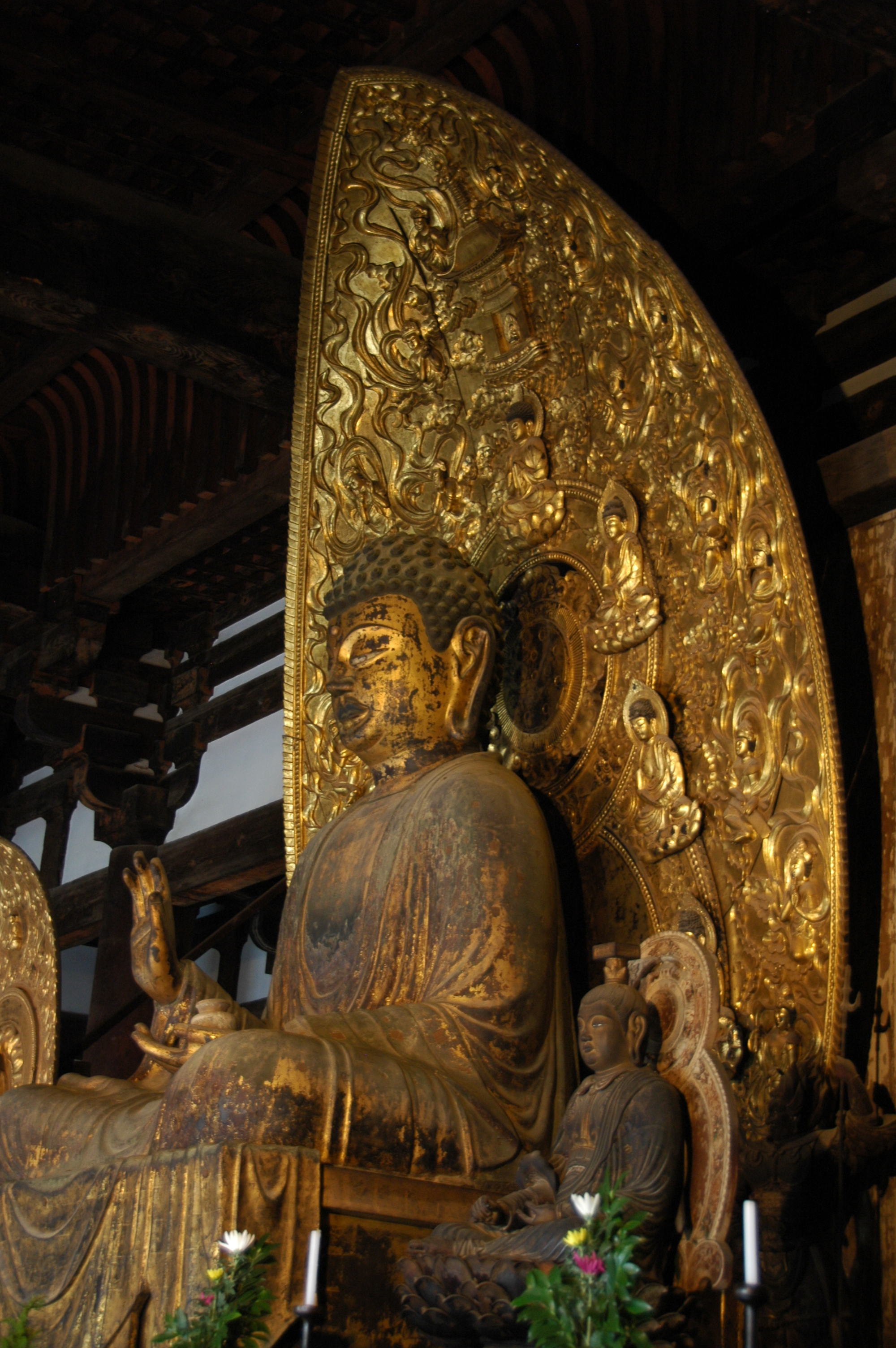 Inside of the Eastern Golden Hall (東金堂, tōkon-dō) of Kōfuku-ji in Nara, Japan. The central image, a sitting Yakushi Nyorai has been designated as Important Cultural Property of Japan. Next to it is a sitting Monju Bosatsu which has been designated as National Treasure of Japan.